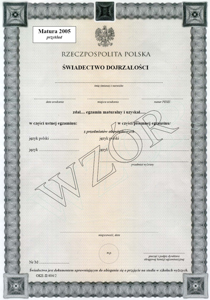 Polish Matura Certificate